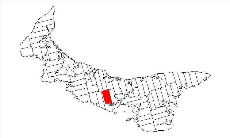 Public domain map of Prince Edward Island created by User:Plasma east with data courtesy of Geogratis, modified to show townships. Released under GFDL (self).